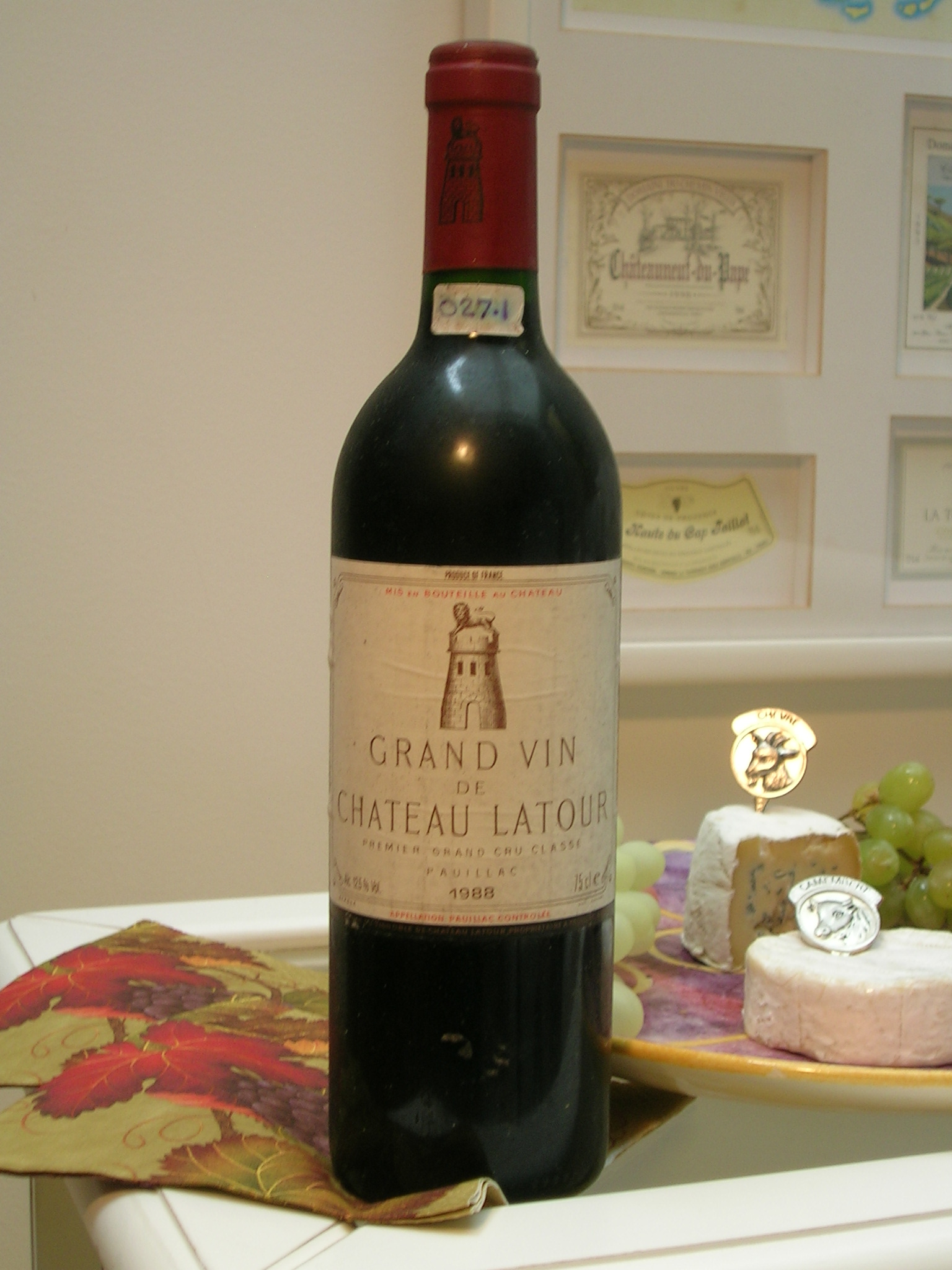 Château Latour bottle - 1988